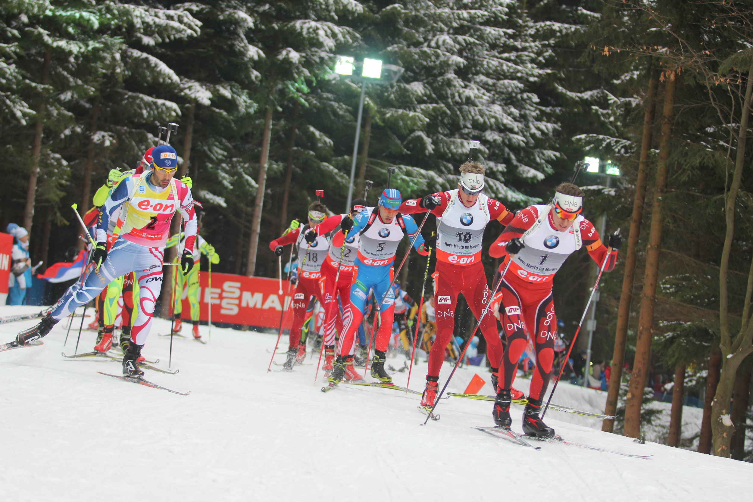 Mass start at Biathlon World Championchip 2013 in Nove Mesto na Morave